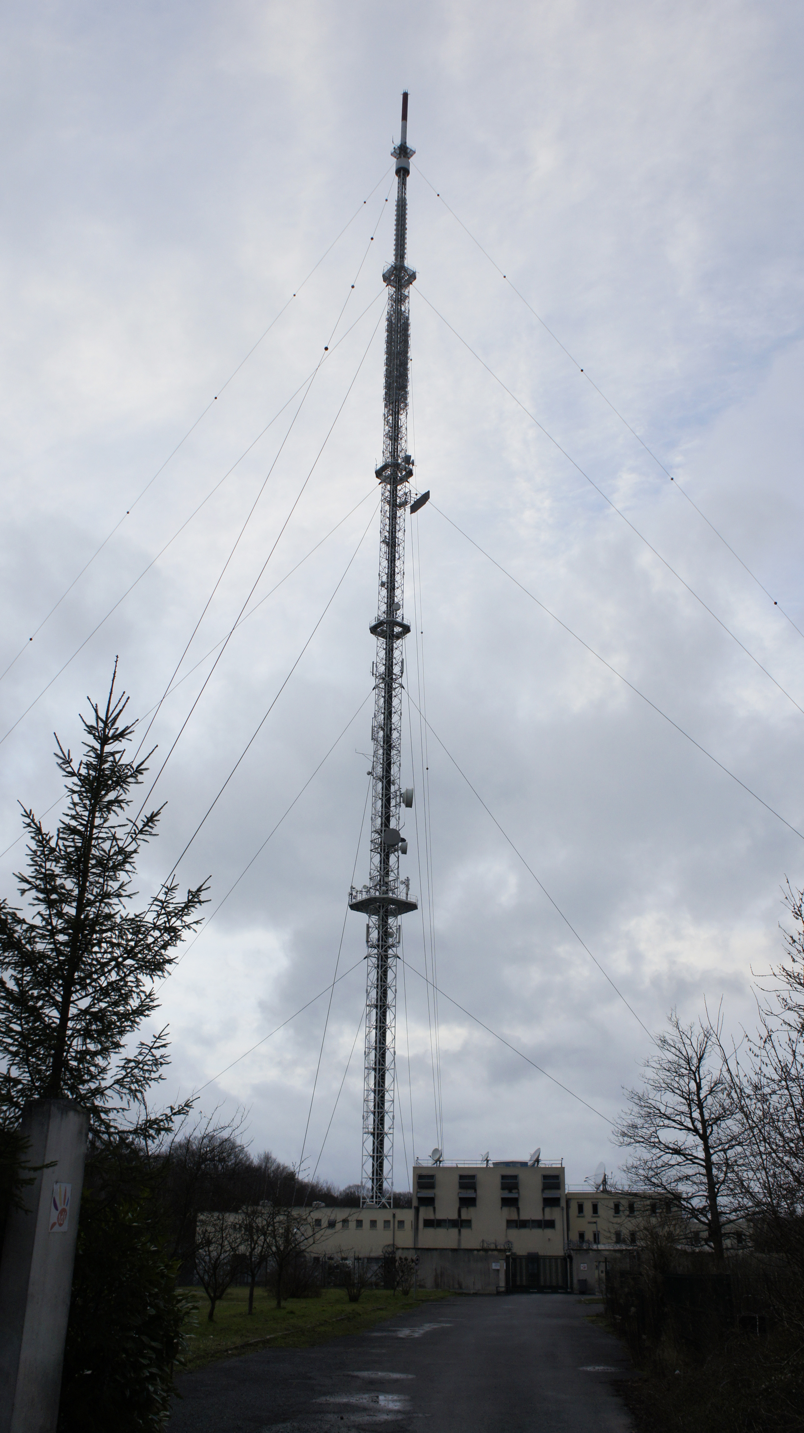 antenne située à Hautvillers.